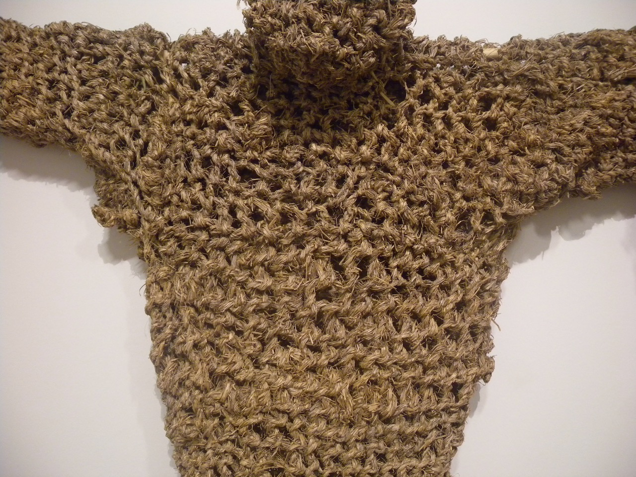 Jacket made by Angus McPhee at Craig Dunain Hospital.